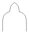 Specific type of arch, name unknown